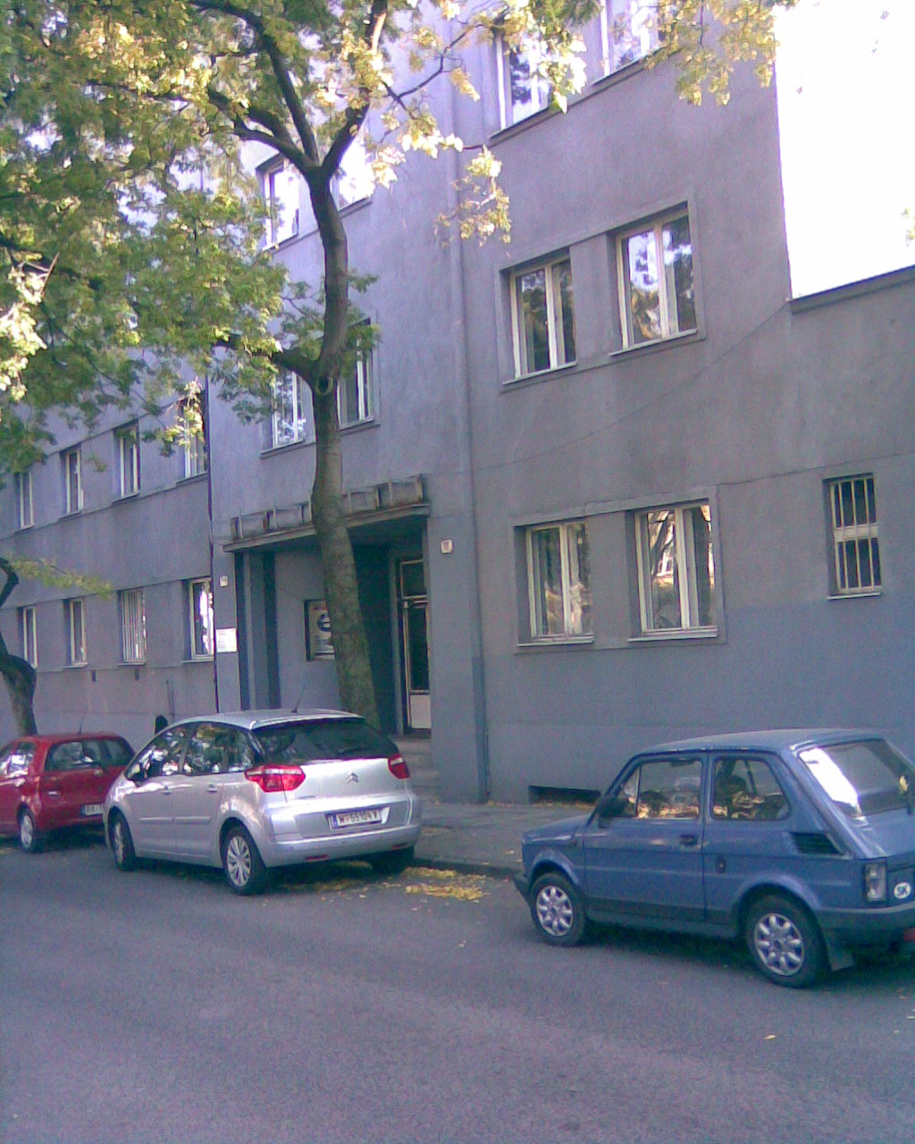 Students house Svoradov (Bratislava)